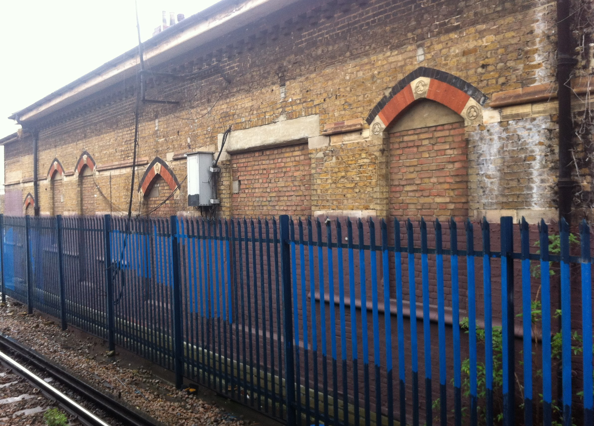 The sealed entrances and windows of Herne Hill railway station's upper floor (in passenger use from 1862 to 1925) can be seen from Platform 1. The upper floor itself is now rented office space, accessible from an external stairway on the building's south side.